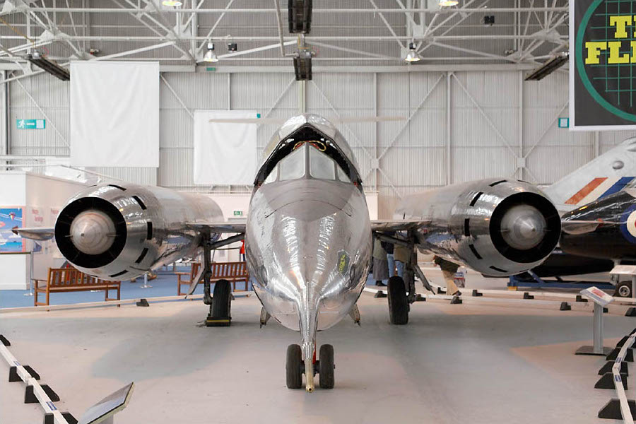 Author - Steve Lane. Taken at RAF Museum Cosford, on 1st March 2007. URL